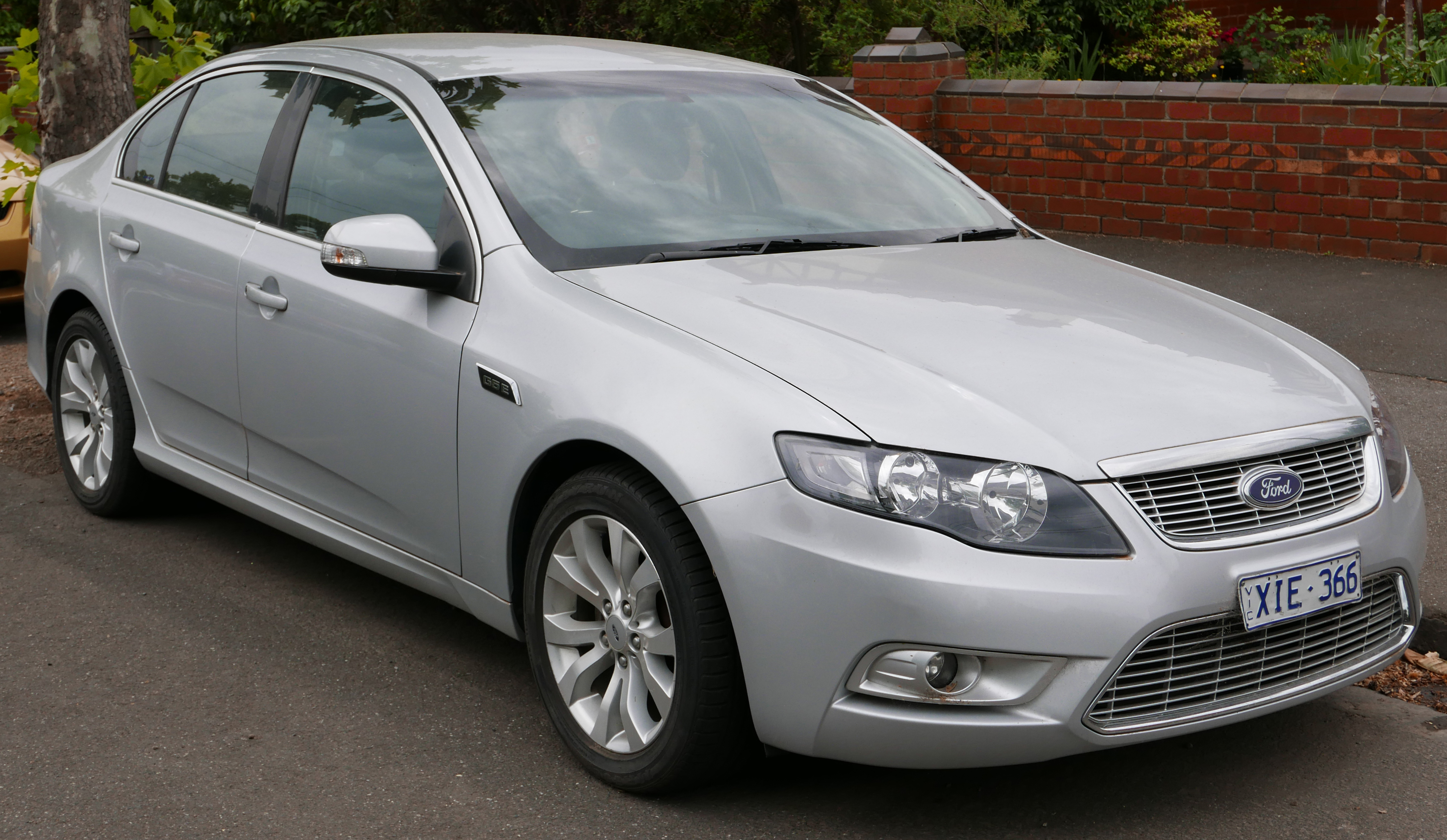 2008 Ford Falcon (FG) G6E sedan. Photographed in Fitzroy North, Victoria, Australia. Vehicle registration enquiry resultsJurisdictionVictoriaRegistrationXIE366Chassis code6FPAAAJGSW8C75293Engine codeJGSW8C75293Compliance date2008-05Year of manufacture2008